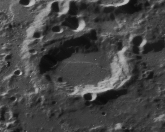 Oblique view of Hayn A crater (southwest of Hayn), facing west, on the moon.